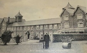 Vintage postcard of Roe Valley Hospital in Limavady